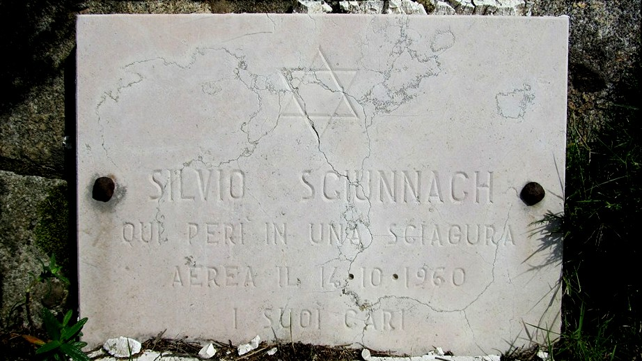 Itavia Elba air crash